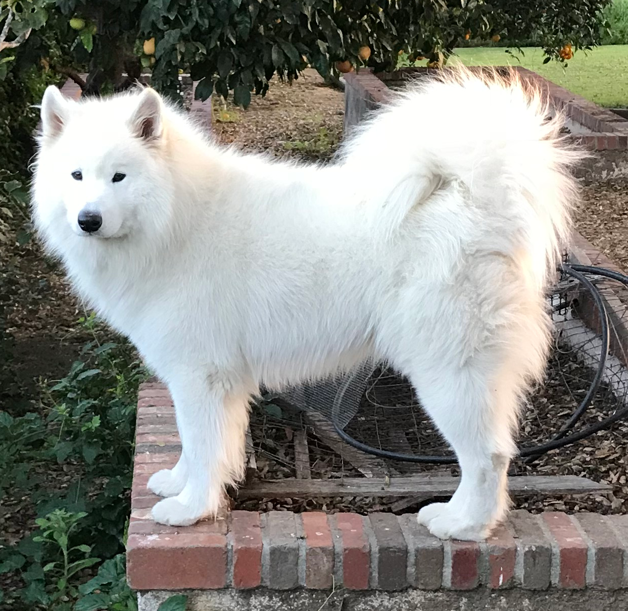 Samoyed pup, 2 yr old.